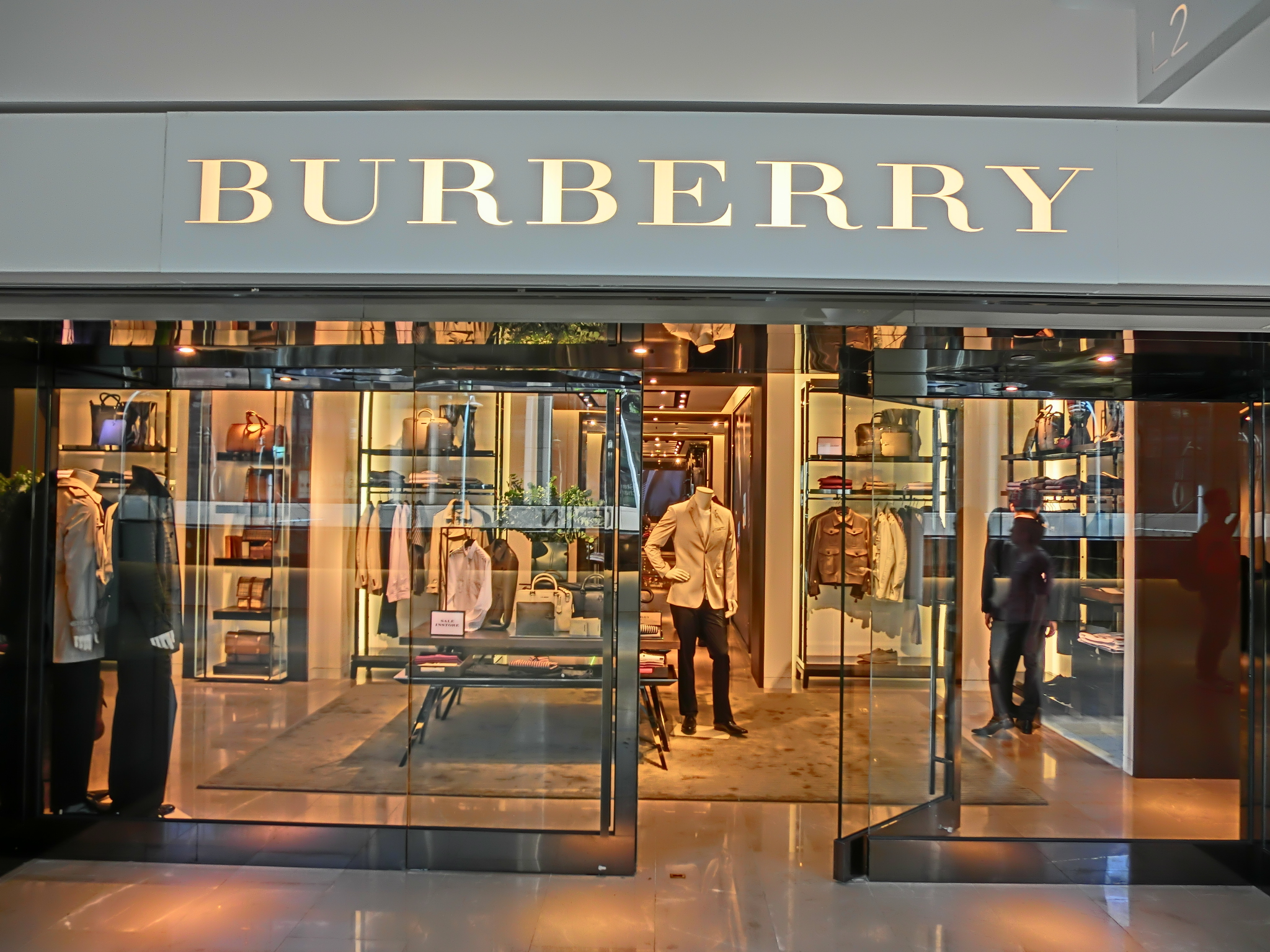 太古廣場, Interior of Pacific Place, Queensway, Admiralty, Hong Kong